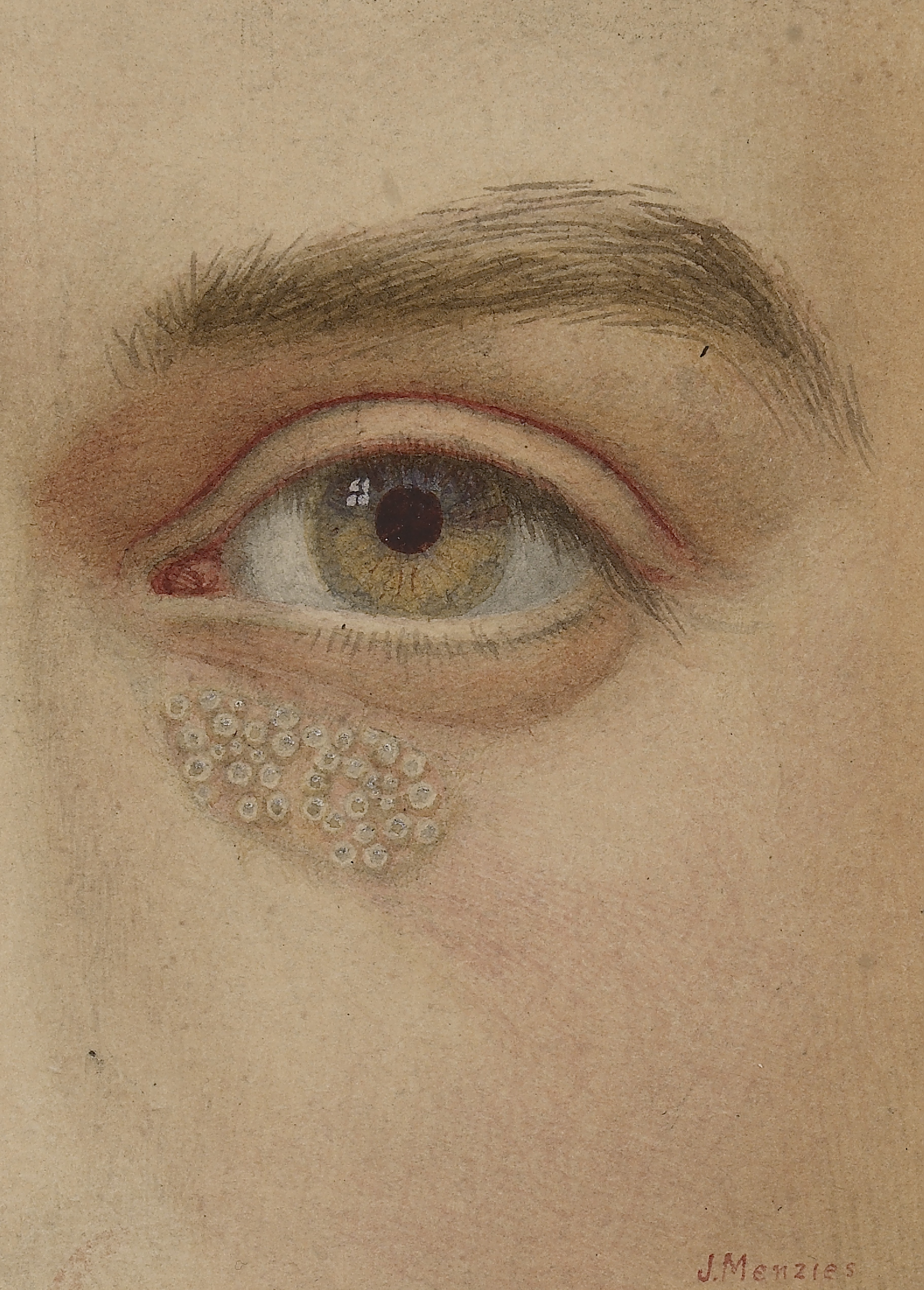 Watercolour drawing showing a case of lymphangioma circumscriptum affecting the skin under the eye. Medical Photographic Library Keywords: Menzies, J